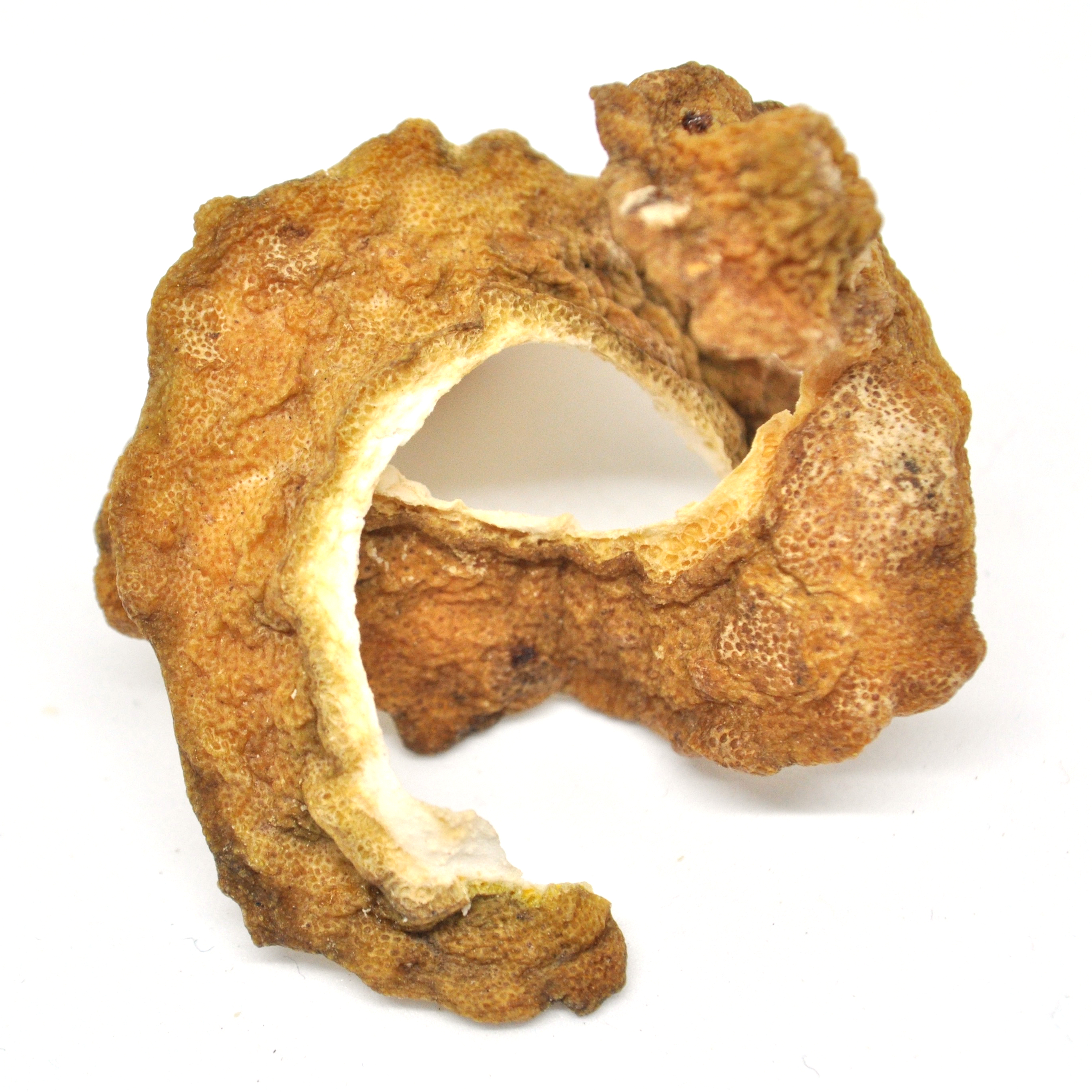 Dried combava rinds, from Madagascar.